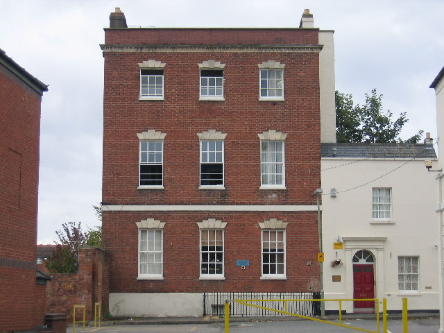 Richleigh, Barton Street, Gloucester. The former site of Sir Thomas Rich's school from 1889 to 1964 before it moved to Oxleaze - see 59396. The blue plaque explains the history and can be seen on more detail on 61709